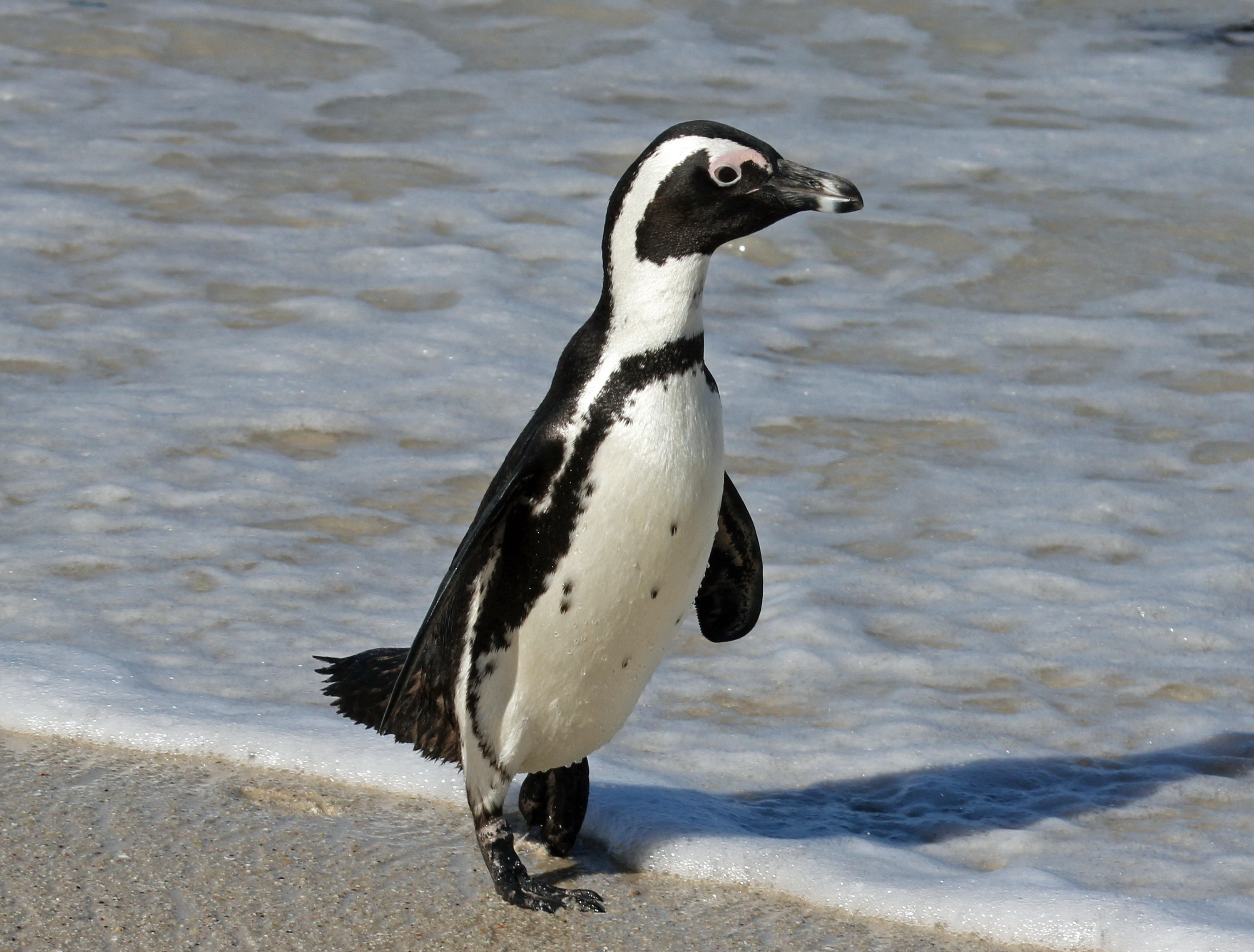 African_Penguin (Spheniscus demersus) at De Hoop Nature Reserve, South Africa